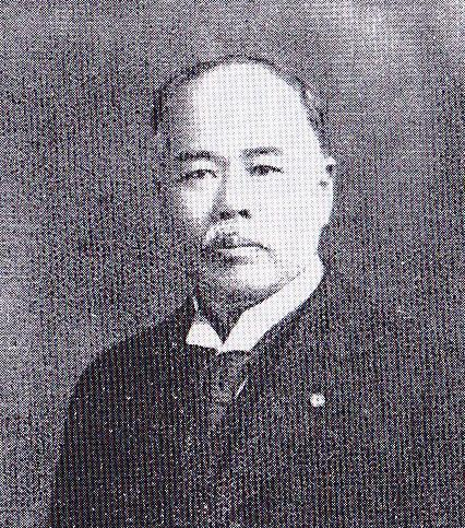 The photograph of Dr. Shuzo Kure, that was shot before 1922.